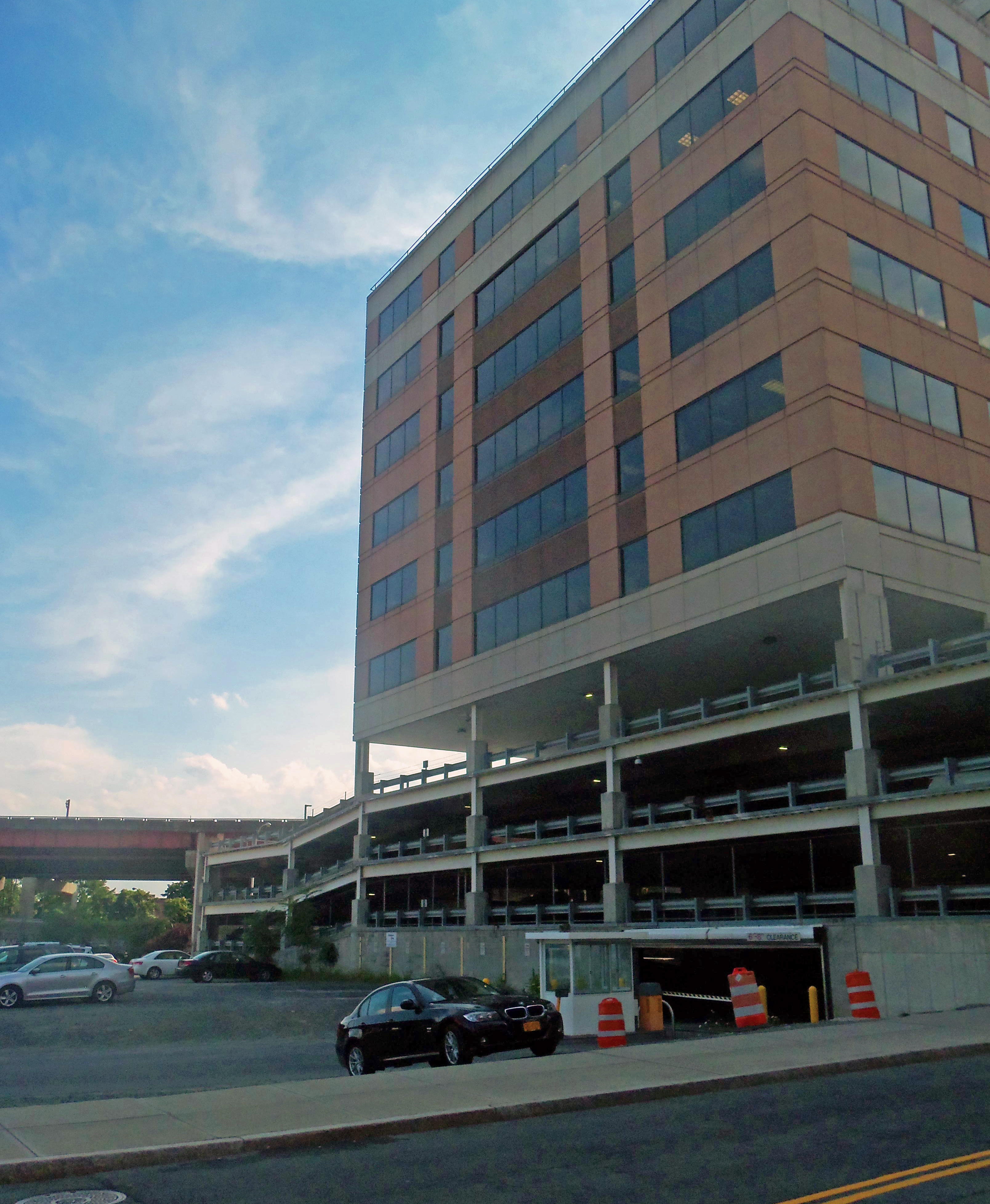 Former site of the Knickerbocker and Arnink Garages in Albany, NY, USA, demolished in the 1980s